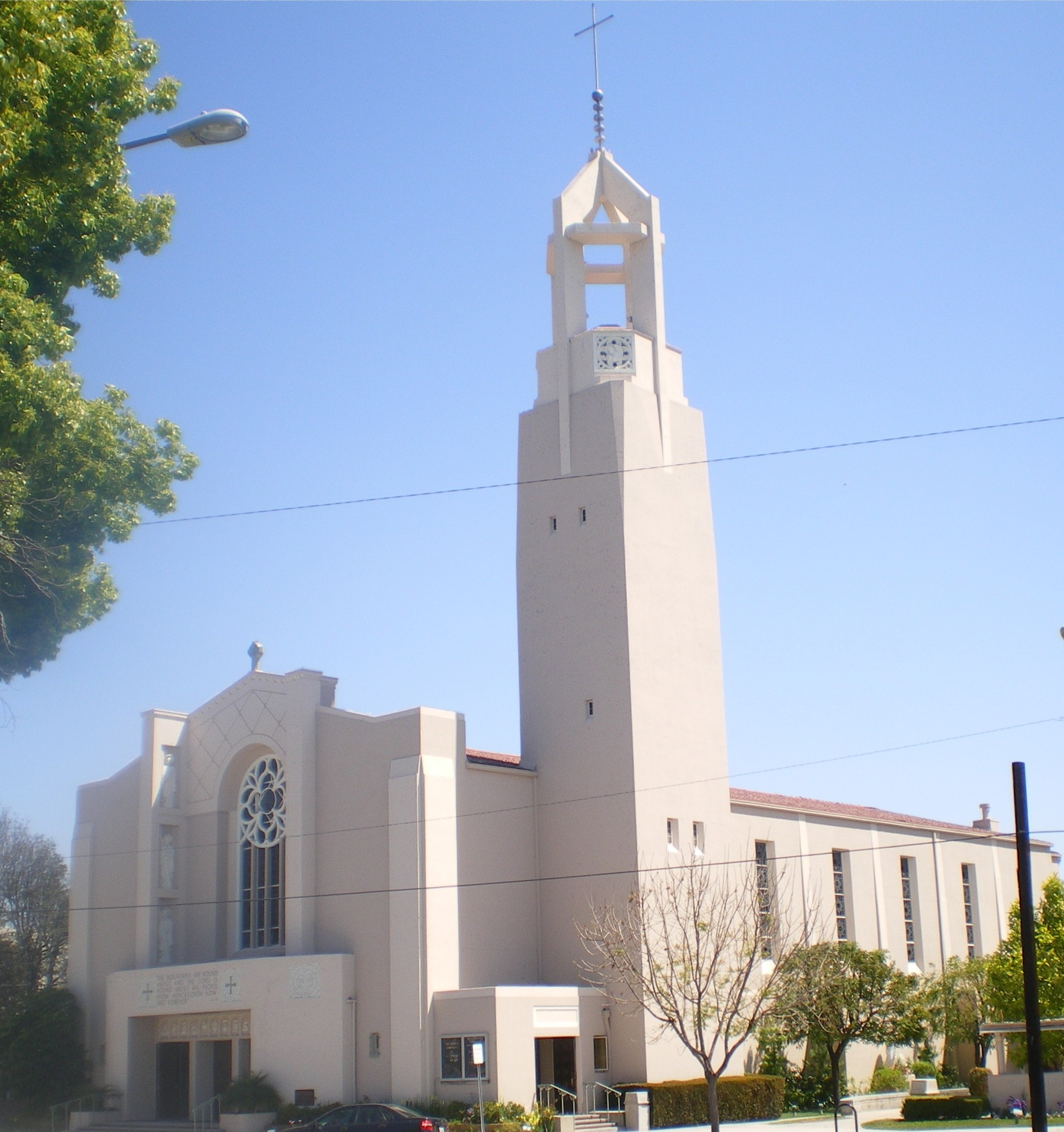 St. Finbar Catholic Church, Burbank, California St. Finbar Catholic Church, Burbank, California